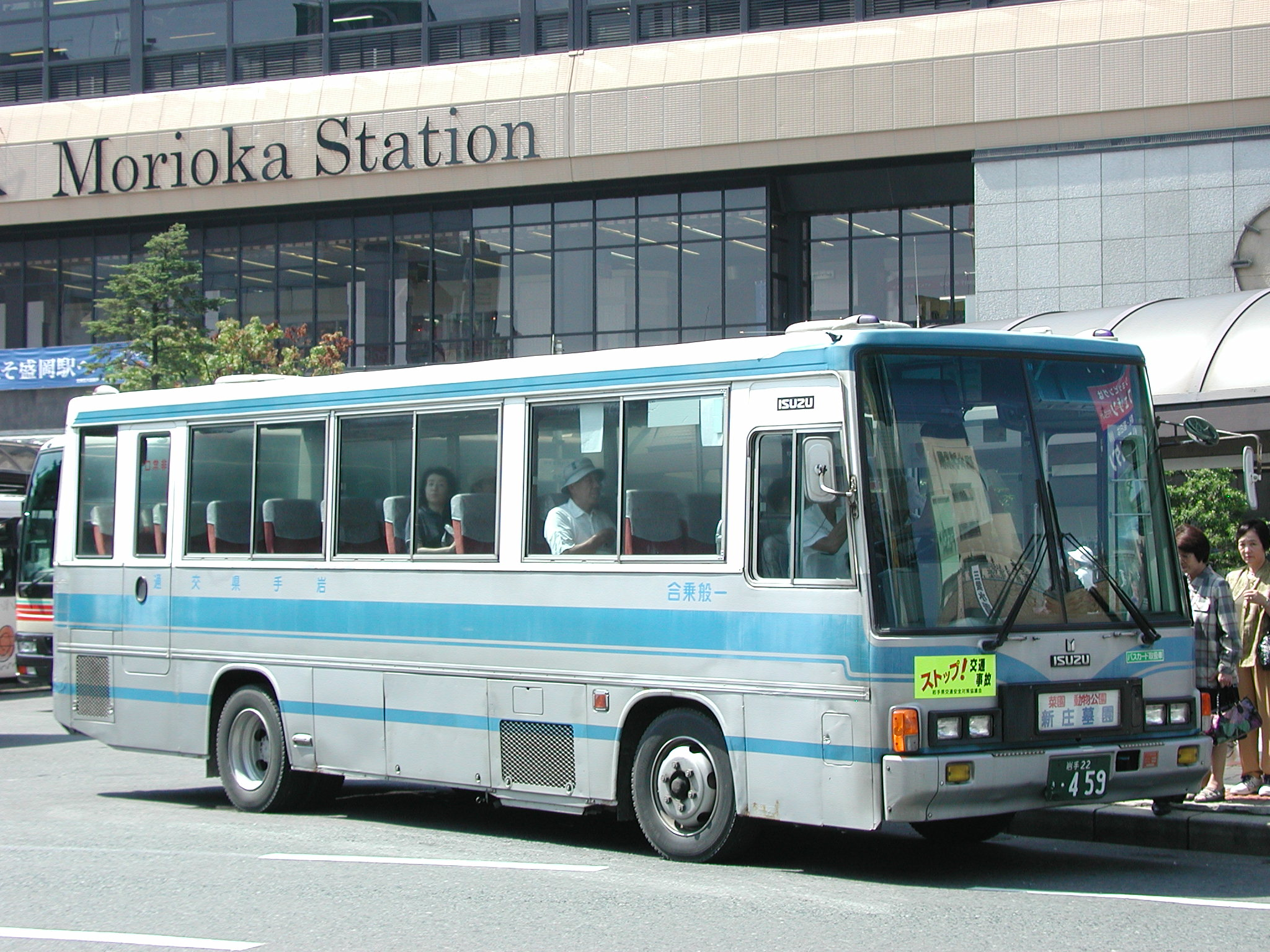 Isuzu Journey K for Iwateken Kotsu sightseeing bus at Morioka Station